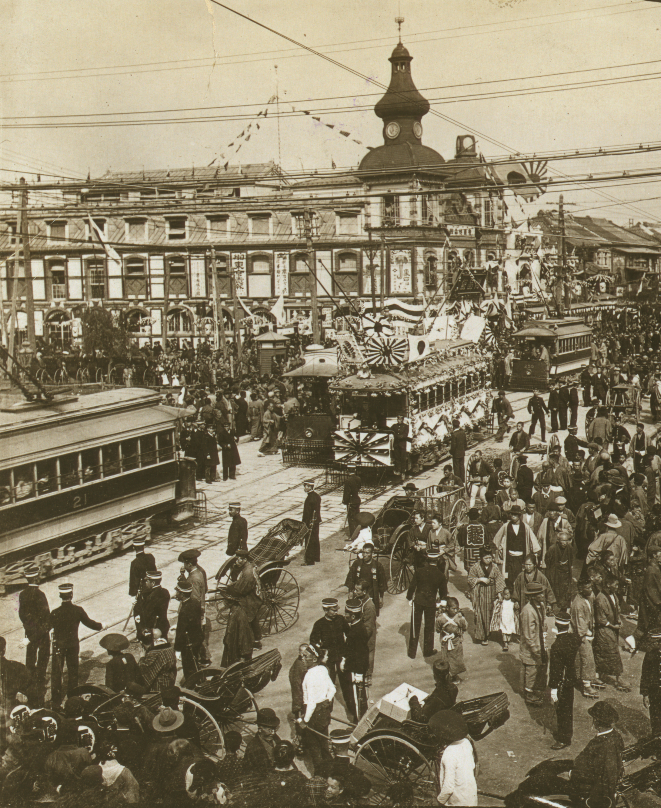 Crowded Tokyo Street, Japan by Underwood & Underwood, ca. 1905 (LOC)